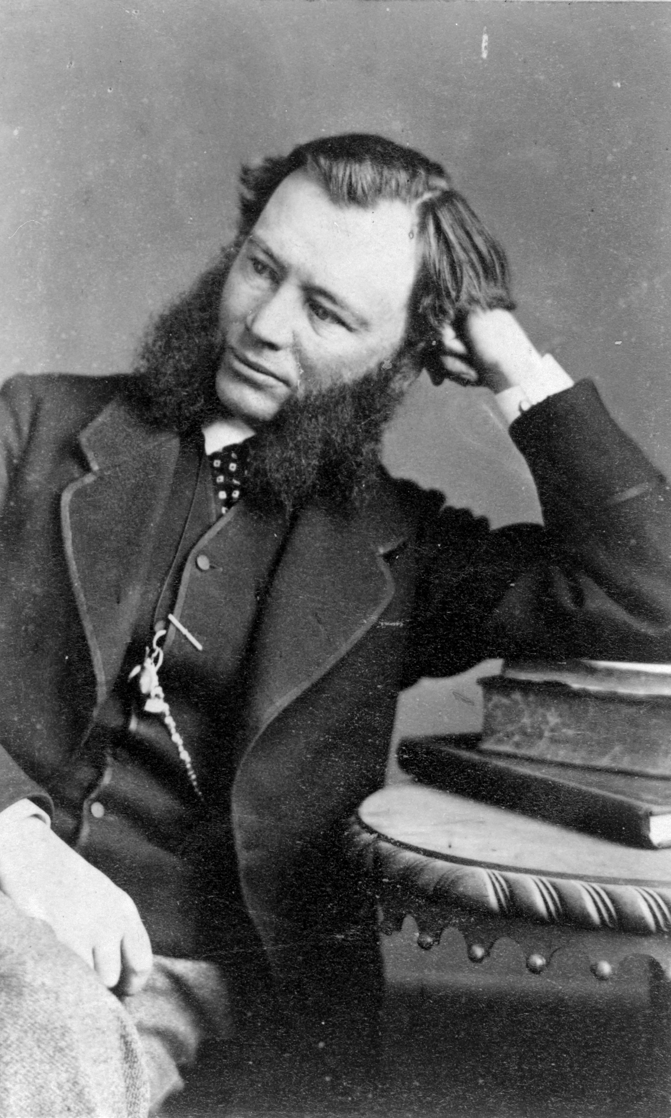 Portrait of Charles Christopher Bowen.